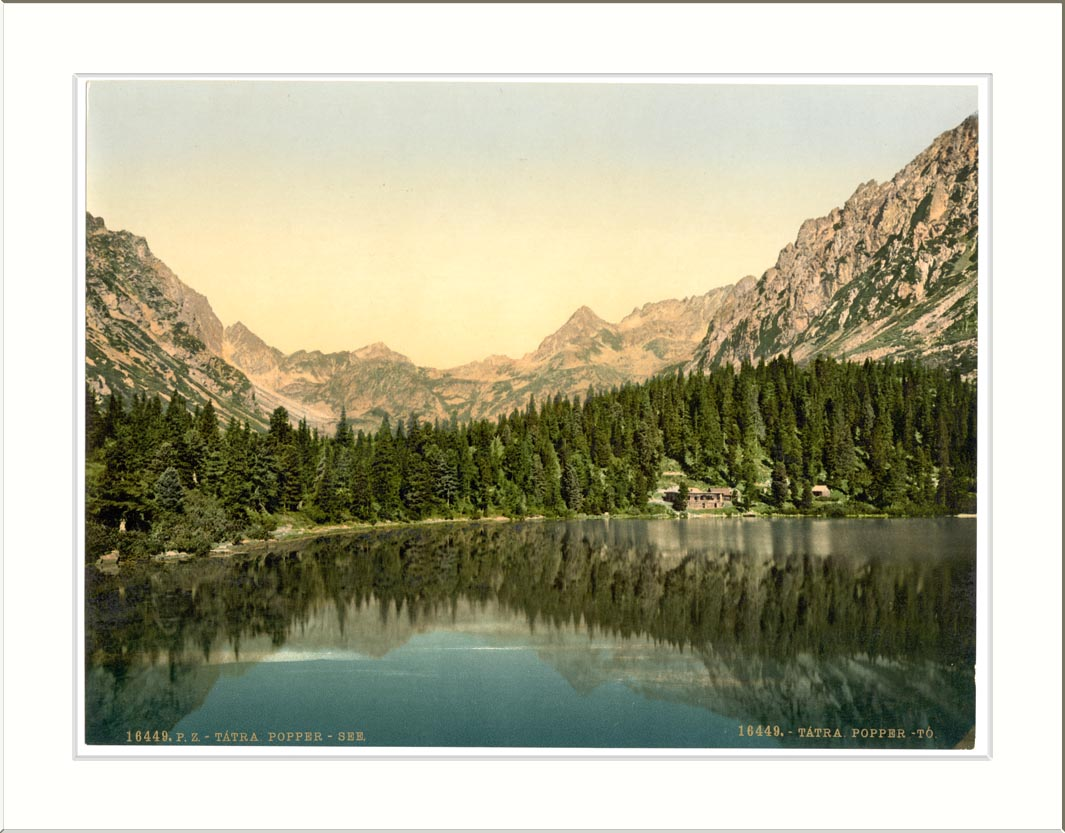 Popper See Tatra Austro-Hungary